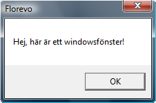 A program written by me in Visual C++ 2008 express edition